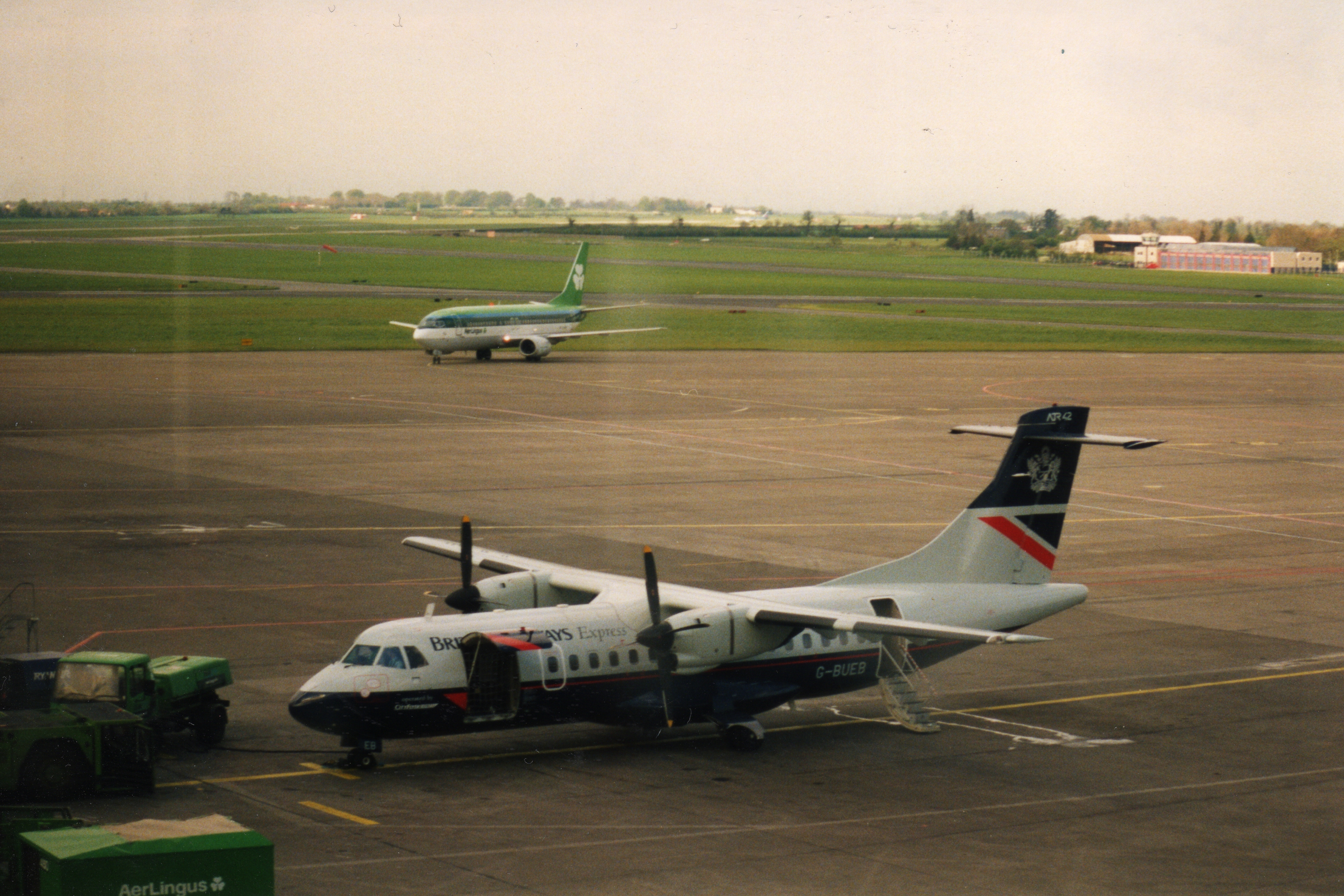 British Airways Express (G-BUEB) ATR 42-300 aircraft, Dublin Airport, Dublin, Republic of Ireland, May 1994